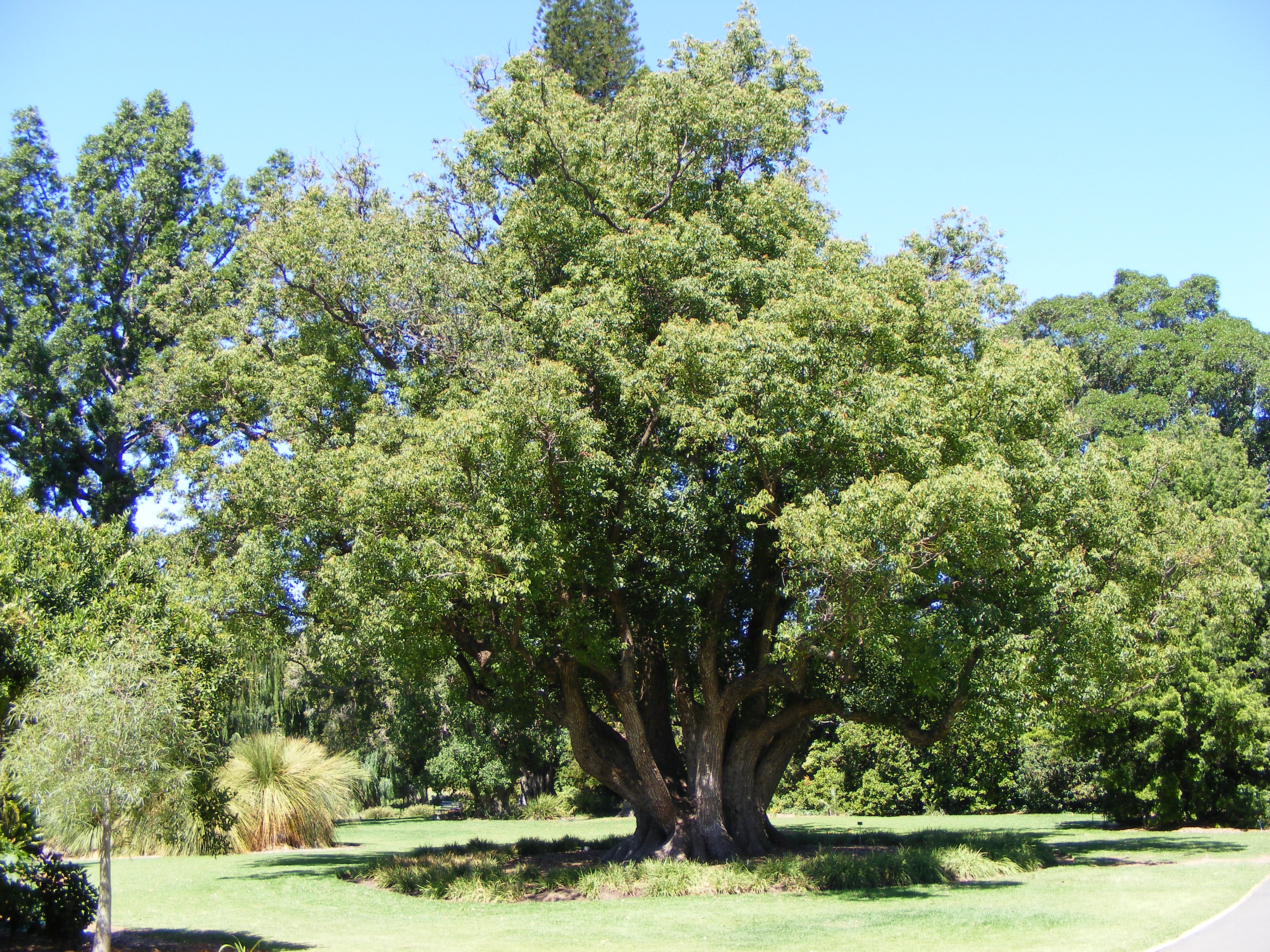 Cinnamomum camphora at the Botanic Gardens, Adelaide, South Australia